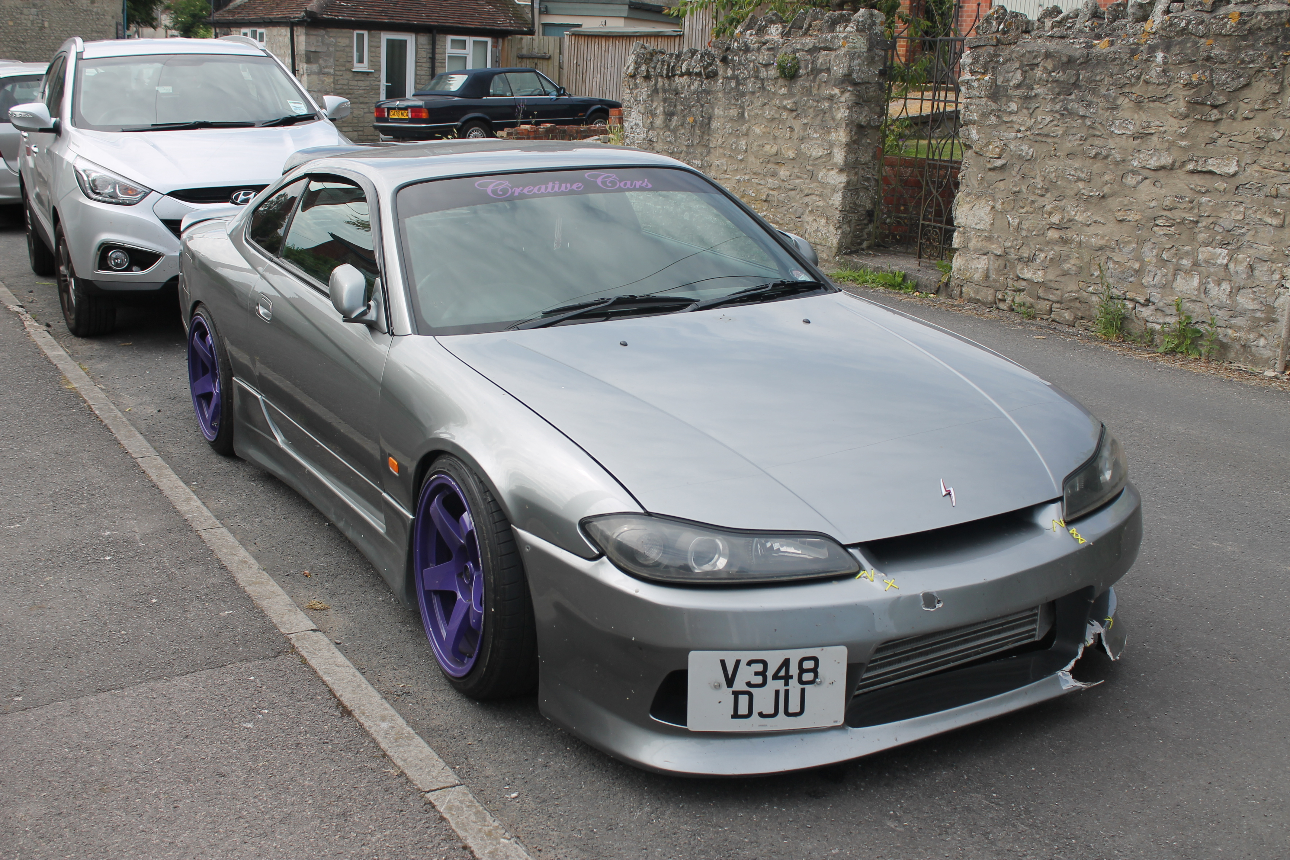 JDM spec I do believe. Sadly this one's been modified a bit, but it's still nice to see a Silvia- I think they're good looking cars. This one was only sold in Japan, Australia and New Zealand, but was a grey import in many countries. bumper looks like it's had a nasty bash at one point. The vehicle details for V348 DJU are: Date of Liability 01 10 2014 Date of First Registration 01 10 2011 Year of Manufacture 1999 Cylinder Capacity (cc) 1998cc CO₂ Emissions Not Available Fuel Type PETROL Export Marker N Vehicle Status Licence Not Due Vehicle Colour SILVER Vehicle Type Approval Not Available